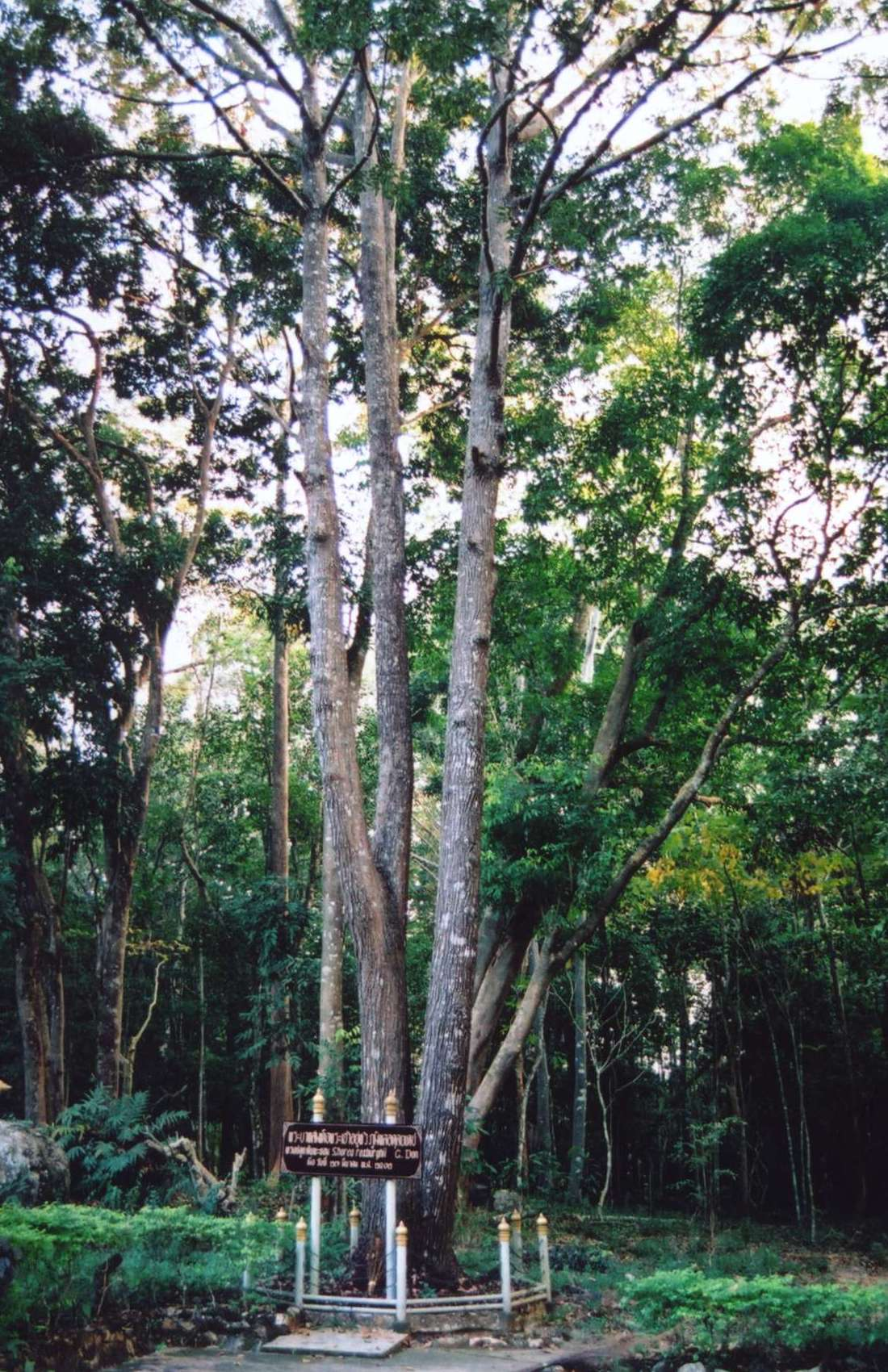 Sweet Shorea (Shorea roxburghii G.Don) tree planted by King Bhumiphol (Rama IX) of Thailand on Khao Tha Phet, Surat Thani. Photo taken by User:Ahoerstemeier on January 18 2005.